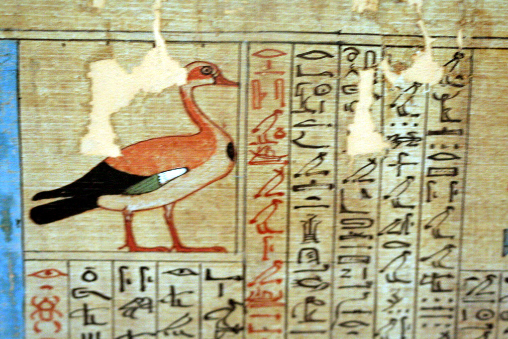 I had a wonderful day at the British Museum with CoryQ (of MonkeyRiverTown) and his wife Mary. These are everything I shot that day, unedited and uncleaned, except for shrinking them some to spead up the upload.